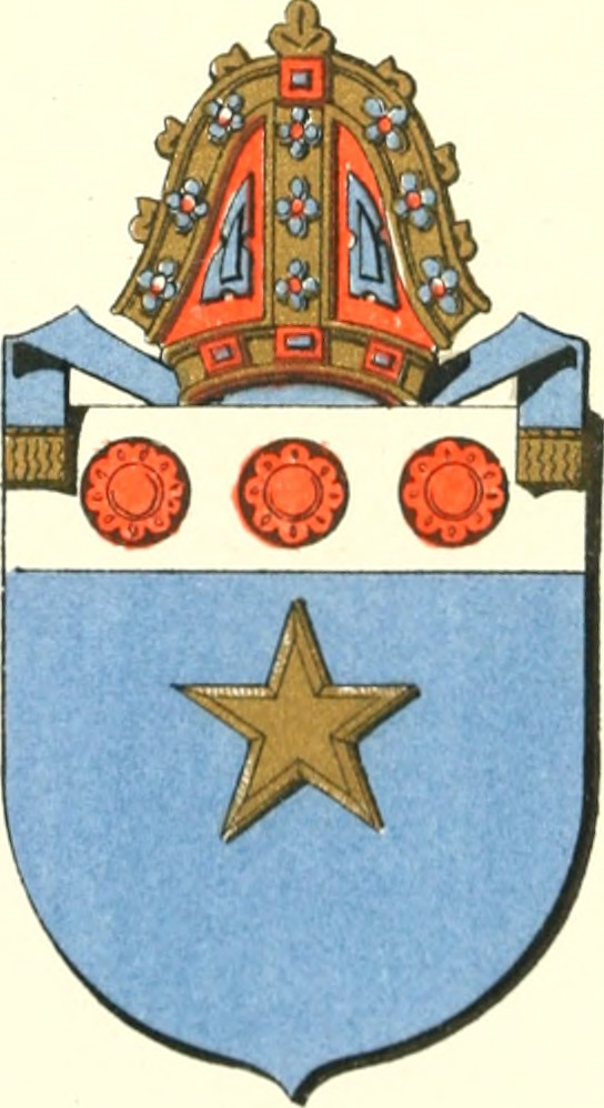 Coat of arms of David Arnot, Bishop of Galloway Identifier: lacunarbasilicae00geddrich Title: Lacunar basilicae Sancti Macarii, aberdonensis: the heraldic ceiling of the cathedral church of St. Machar, old Aberdeen Year: 1888 (1880s) Authors: Geddes, W. D., Sir (William Duguid), 1828-1900 Duguid, Peter Subjects: Old Machar Church (Aberdeen, Scotland) Heraldry -- Scotland Heraldry, Ornamental Publisher: Aberdeen : Printed for the New Spalding Club